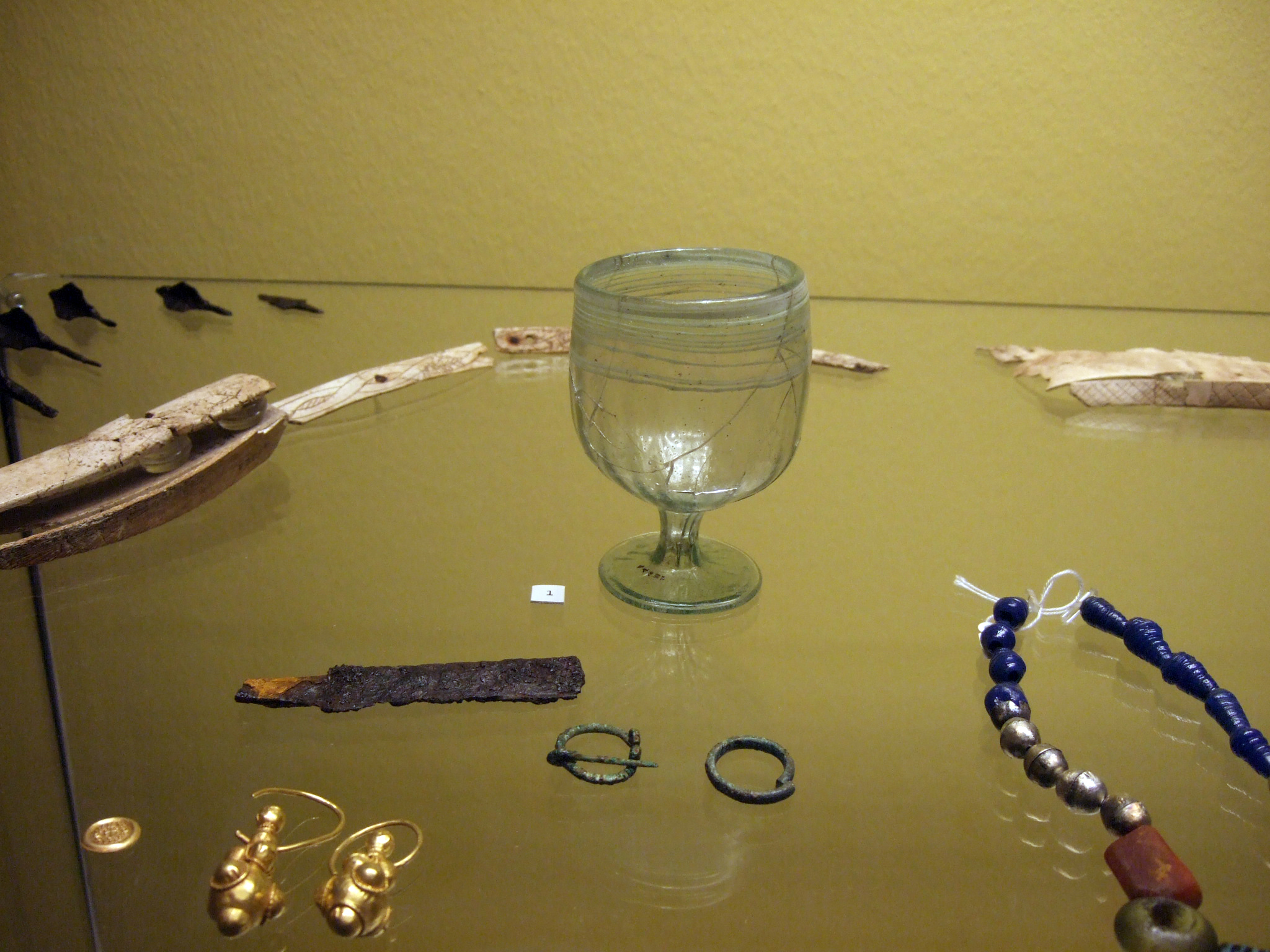 Avar(-style) goods from a woman's grave in Morrione Campochiaro, Province of Campobasso, Region Molise, Italy The cemetery of Morrione was laid out in the 7th century in irregular rows of graves oriented east-west. The dead were buried lying in a supine position. Remnants of coffins have been found in only a few instances. At a remove of just 800 meters, the cemetery of Vicenne has a nearly identical layout. A noteworthy feature of both cemeteries is the presence of 19 mounted warriors' graves, each with an accompanying burial of a horse. This burial custom is extremely rare in Italy and has its closest parallels in the Avar burial grounds of Hungary, for example the necropolis of Zamárdi. In addition to the horse burials, the specific form of earrings found in women's graves and the decorative patterns of ornamental fittings found in men's graves are closely related to those of the Avars. Grave 129 (front), woman's grave. 1. Stemmed glass. 2. Pair of golden earrings. Earrings of this type have been found in large numbers in the graves of Morrione and Vicenne but are otherwise unknown in Italy. Nearly identical forms occur in the early Avar graves of Hungary. Photographed while on display from 22 August 2008 to 11 January 2009 in the exhibition "Die Langobarden. Das Ende der Völkerwanderung" at the Rheinisches LandesMuseum Bonn. On loan from the Soprintendenza per i Beni Archeologici Molise, Campobasso.